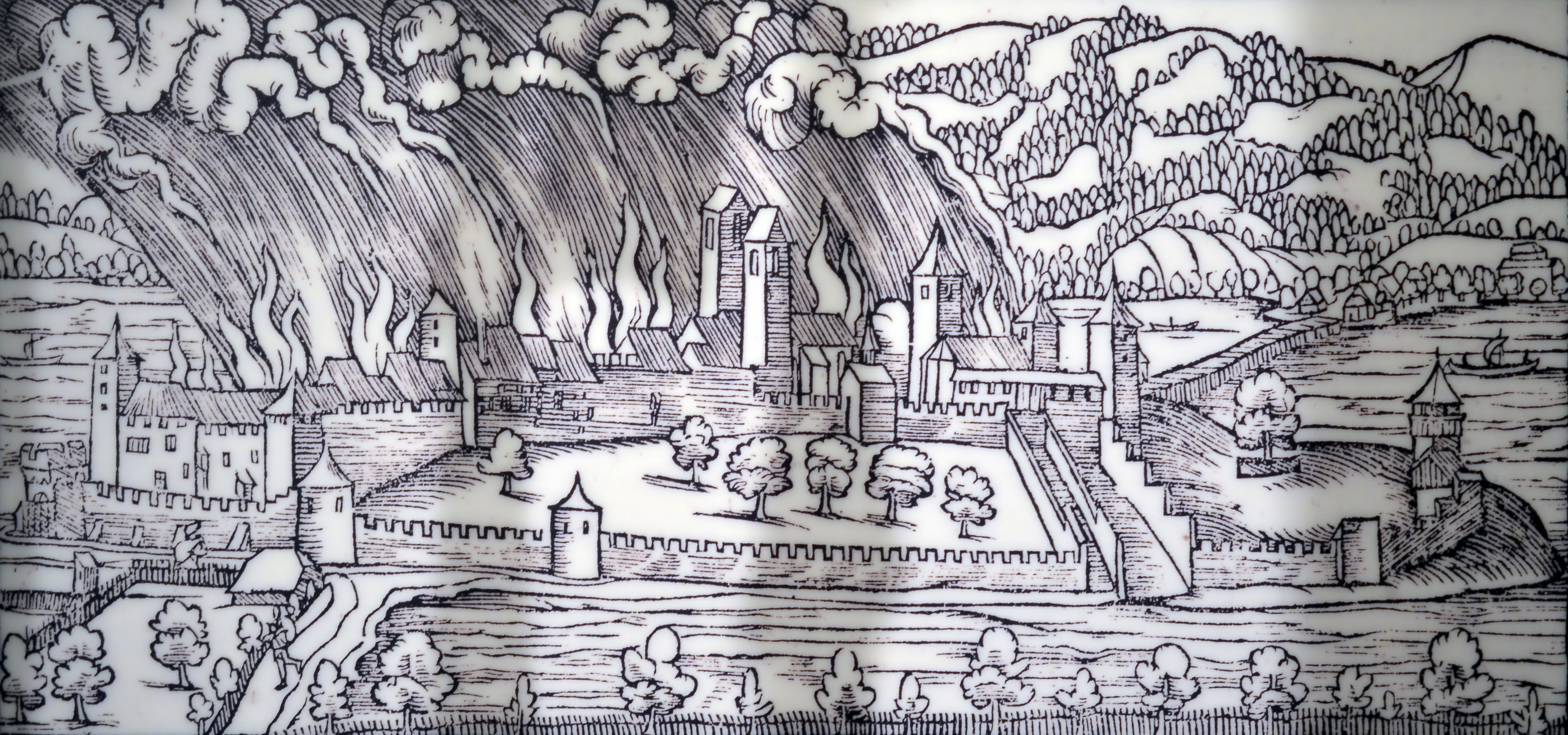 Rapperswil (SG) : Destruction of Rapperswil by Rudolf Brun on 24 February 1350. Woodcut from Stumpf'sche Chronik 1547/48. From facsimile in Rapperswil-Jona museum